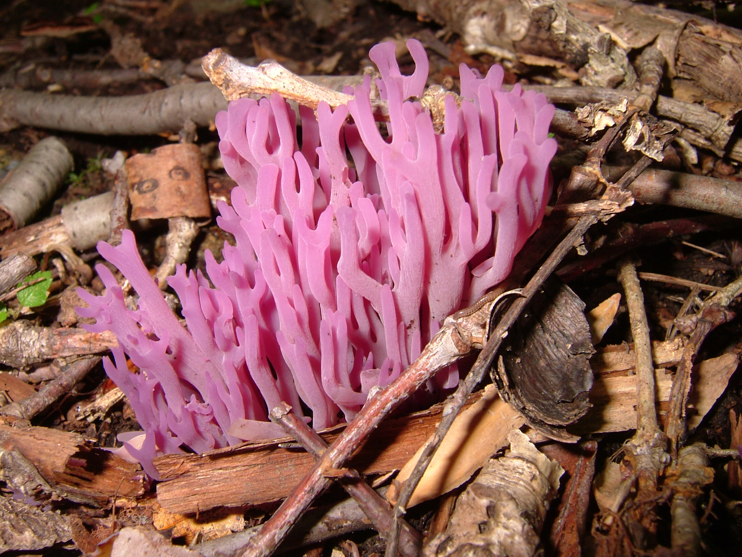 The clavarioid fungus Clavaria zollingeri Lév. Specimen photographed in Chester, Morris Co., New Jersey, USA.